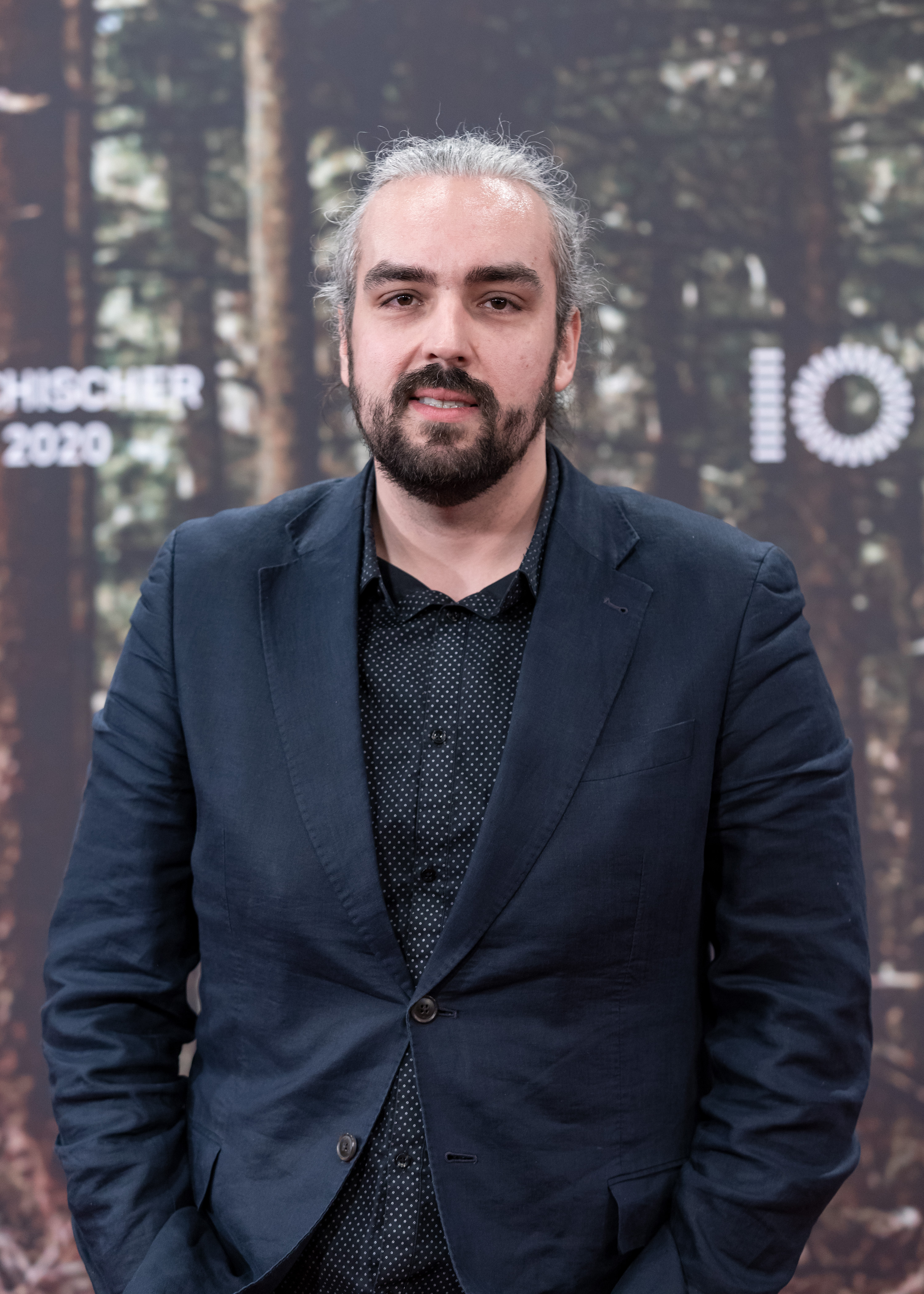 Martin Winter (director "Freigang") at the award ceremony of the Austrian Film Awards 2020 (Auditorium Grafenegg at Grafenegg Castle, Lower Austria,Austria).